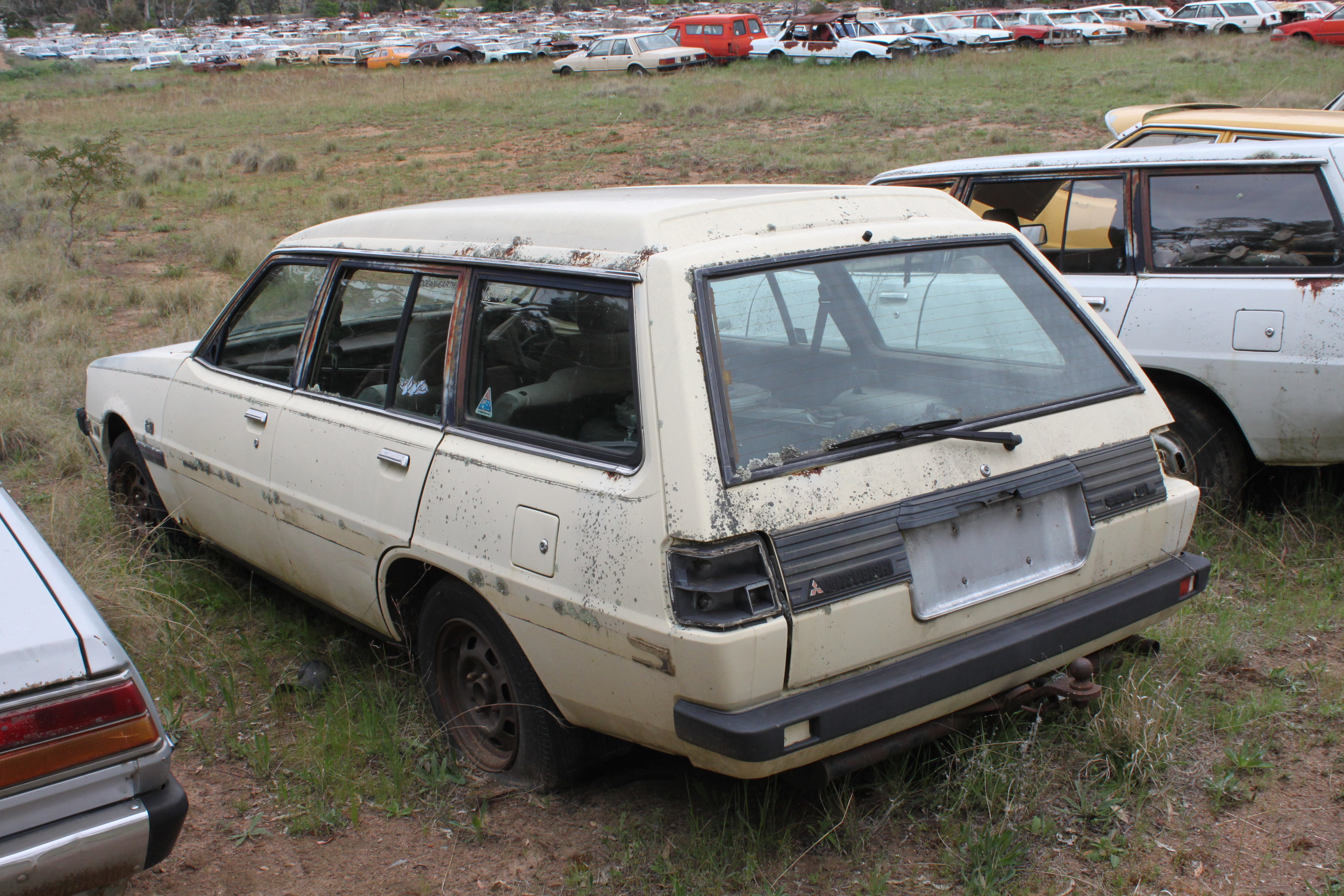 Flynn's Wrecking Yard, Cooma NSW